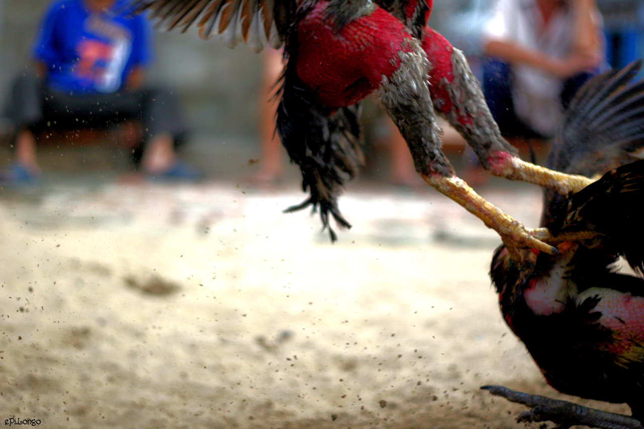 Cock fighting